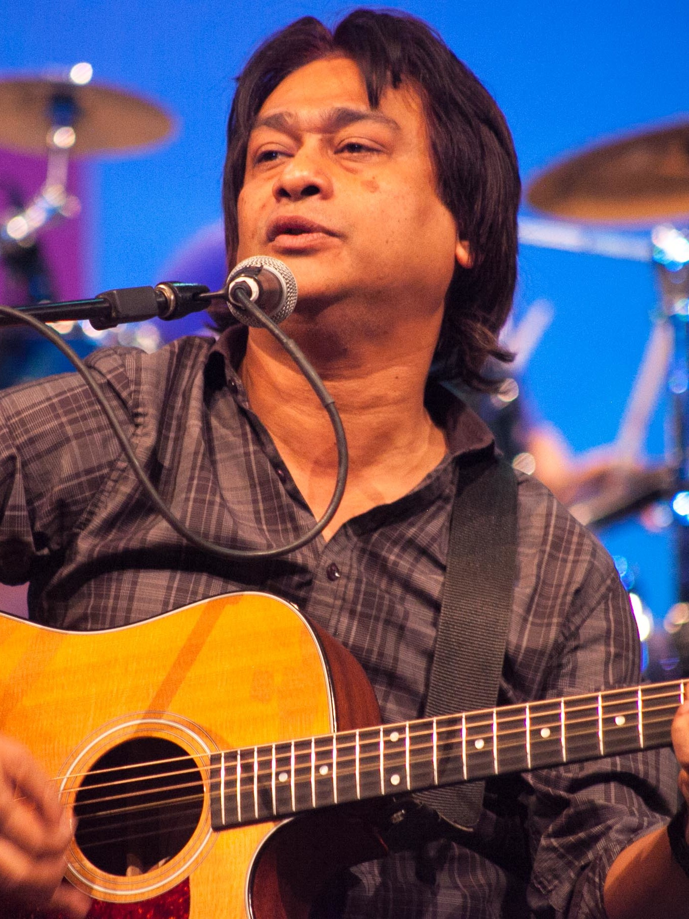 Partha Barua performing in San Jose, California, USA in an event organized by Bay Area Bangladesh Associatoin